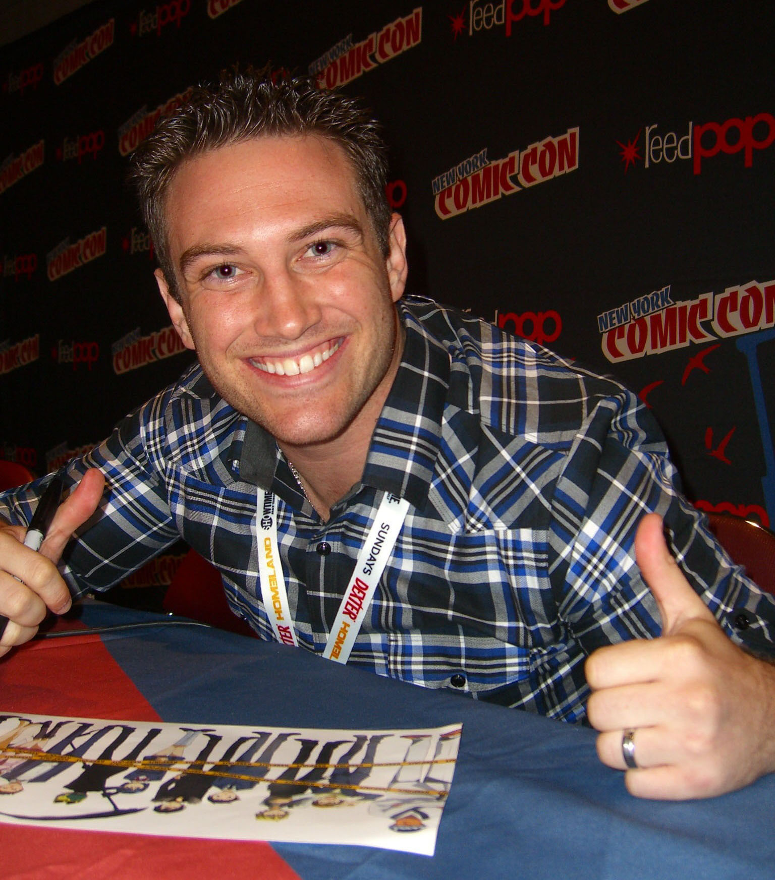 Actor and voice actor Bryce Papenbrook on Day 2 of the 2012 New York Comic Con, Friday October 12, 2012 at the Jacob K. Javits Convention Center in Manhattan. This photo was created by Luigi Novi. It is not in the public domain, and use of this file outside of the licensing terms is a copyright violation.